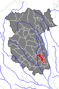 This map shows the area of the Gemeinde (municipality) Sankt Magdalena am Lemberg in the Bezirk (district) Hartberg, Styria, Austria.